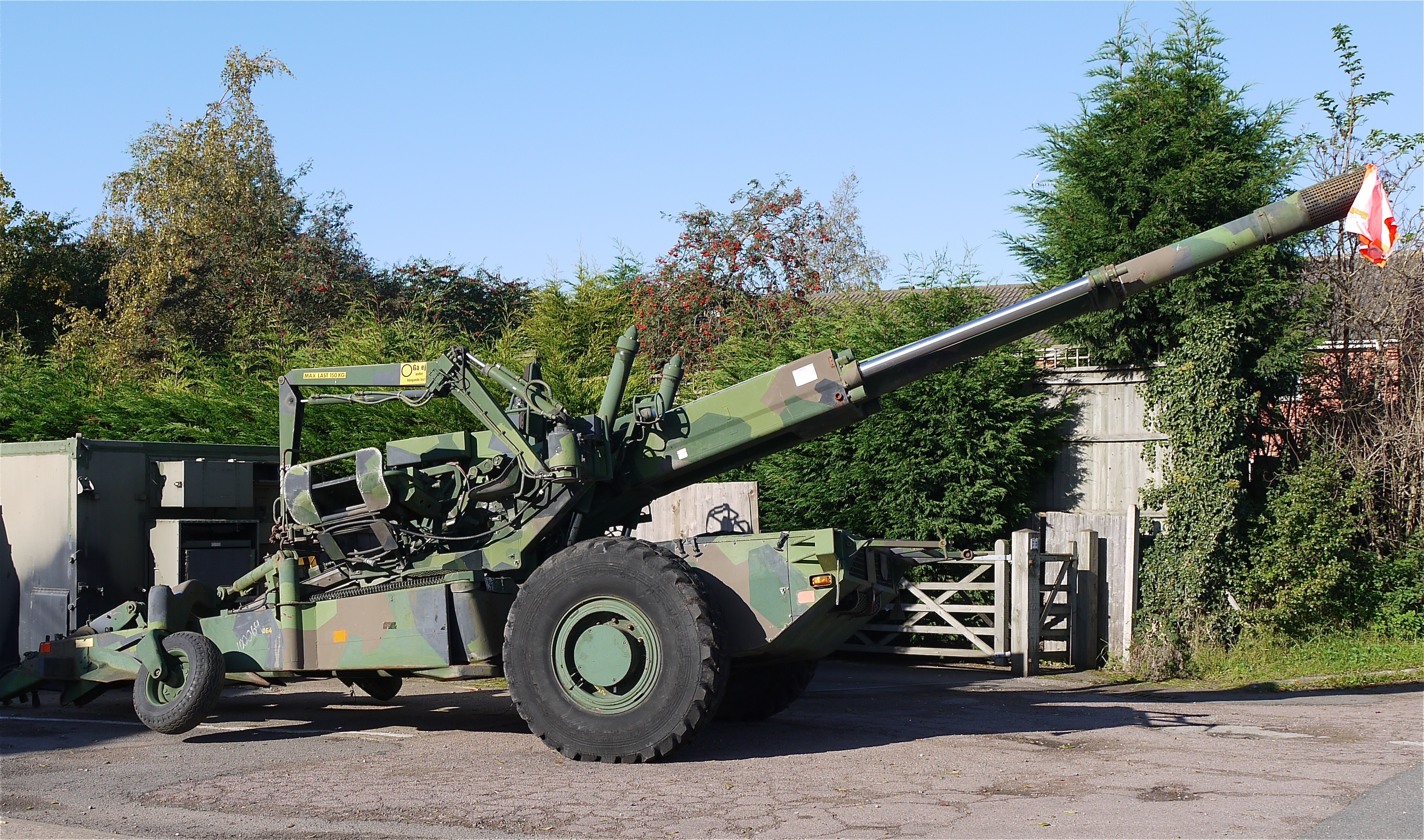 Haubits 77 (Swedish "Field Howitzer 77") or FH77, a Swedish 155mm howitzer